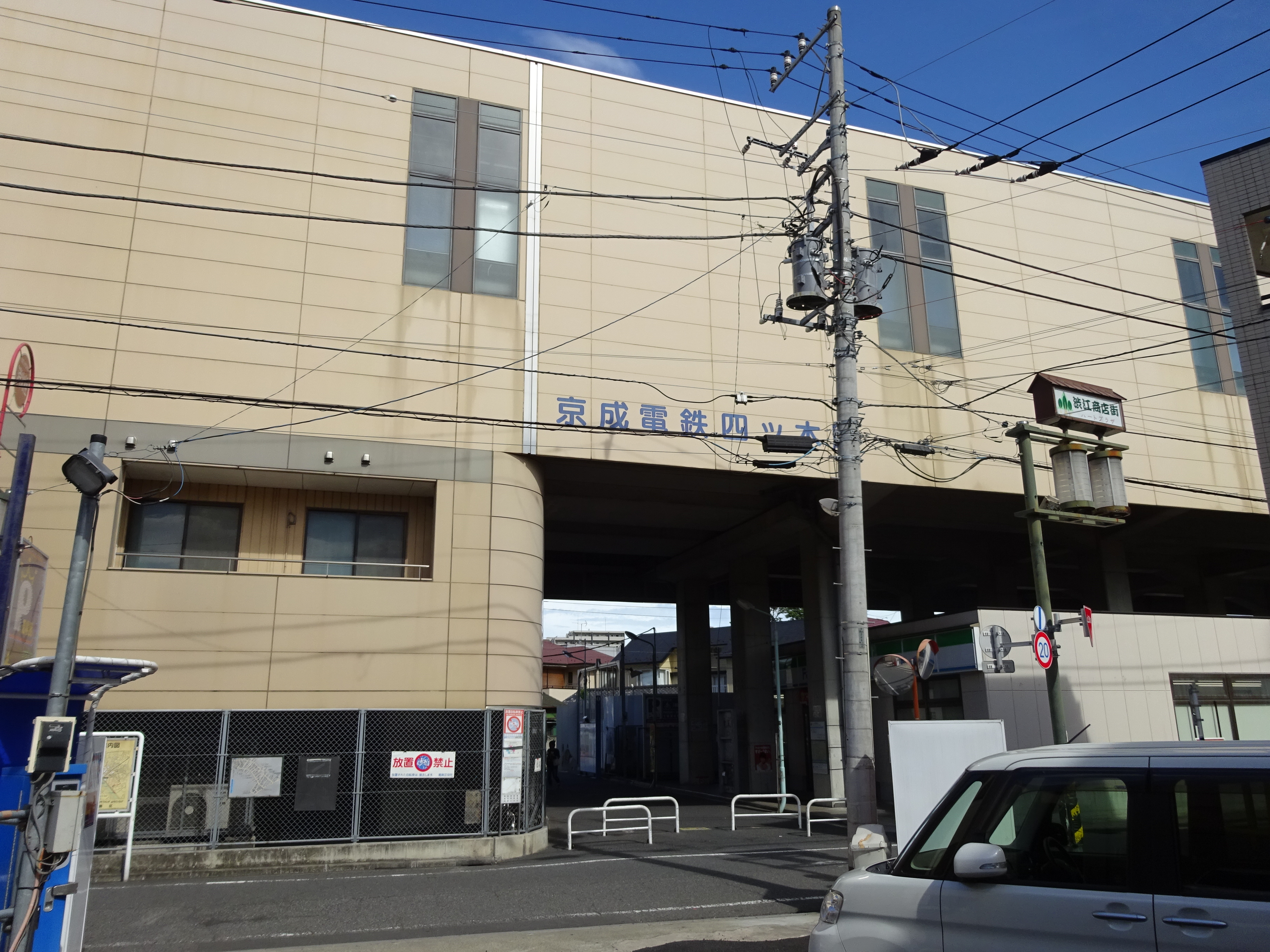 South entrance of Yotsugi Station